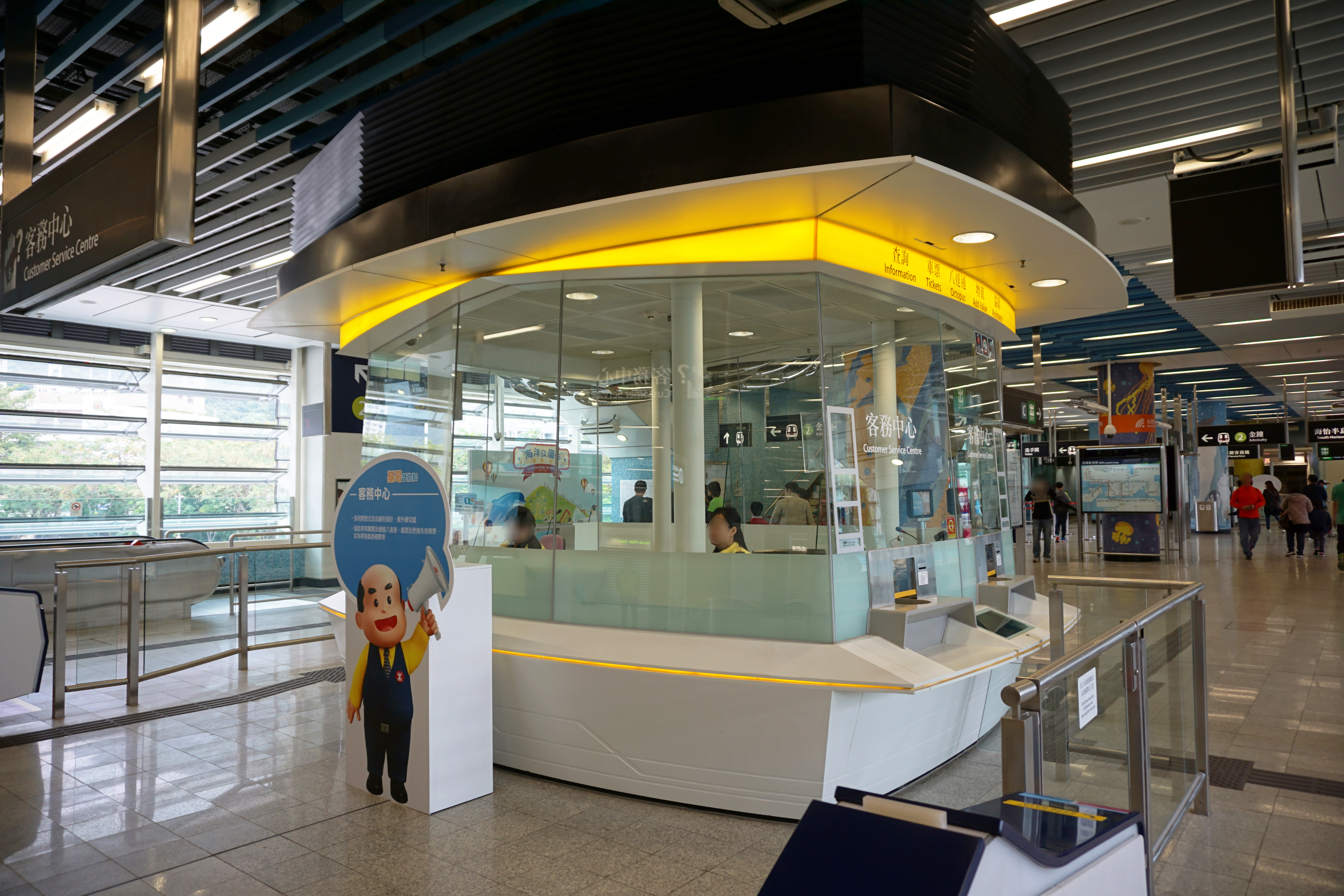 Ocean Park Station in Wong Chuk Hang, Hong Kong.